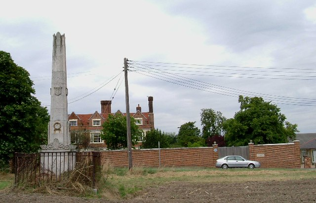 Woodham Mortimer Memorial. The obelisk on the left is an 1825 memorial to William Alexander Esq. a Philanthropist who left his estate lands to the poor of the Company of Coopers London. The house in the background was the home of Pioneer Obstetricians Doctors Peter (1601-1683 and Hugh (1630-1720) Chamberlen.